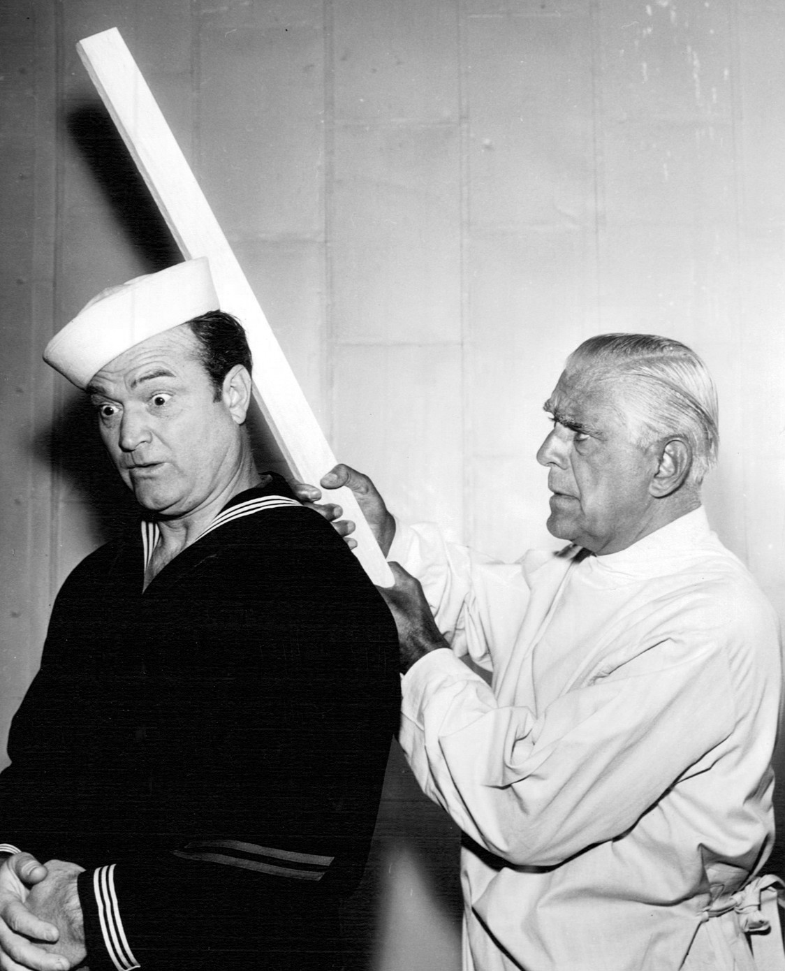 Photo of Red Skelton and guest star Boris Karloff from The Red Skelton Show. Karloff plays a foreign scientist who hopes to gain defense secrets from Cookie the Sailor (Skelton).